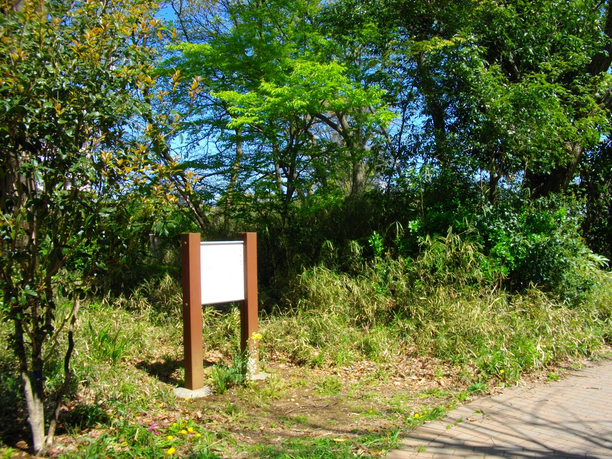 Sakainehara Battlefield